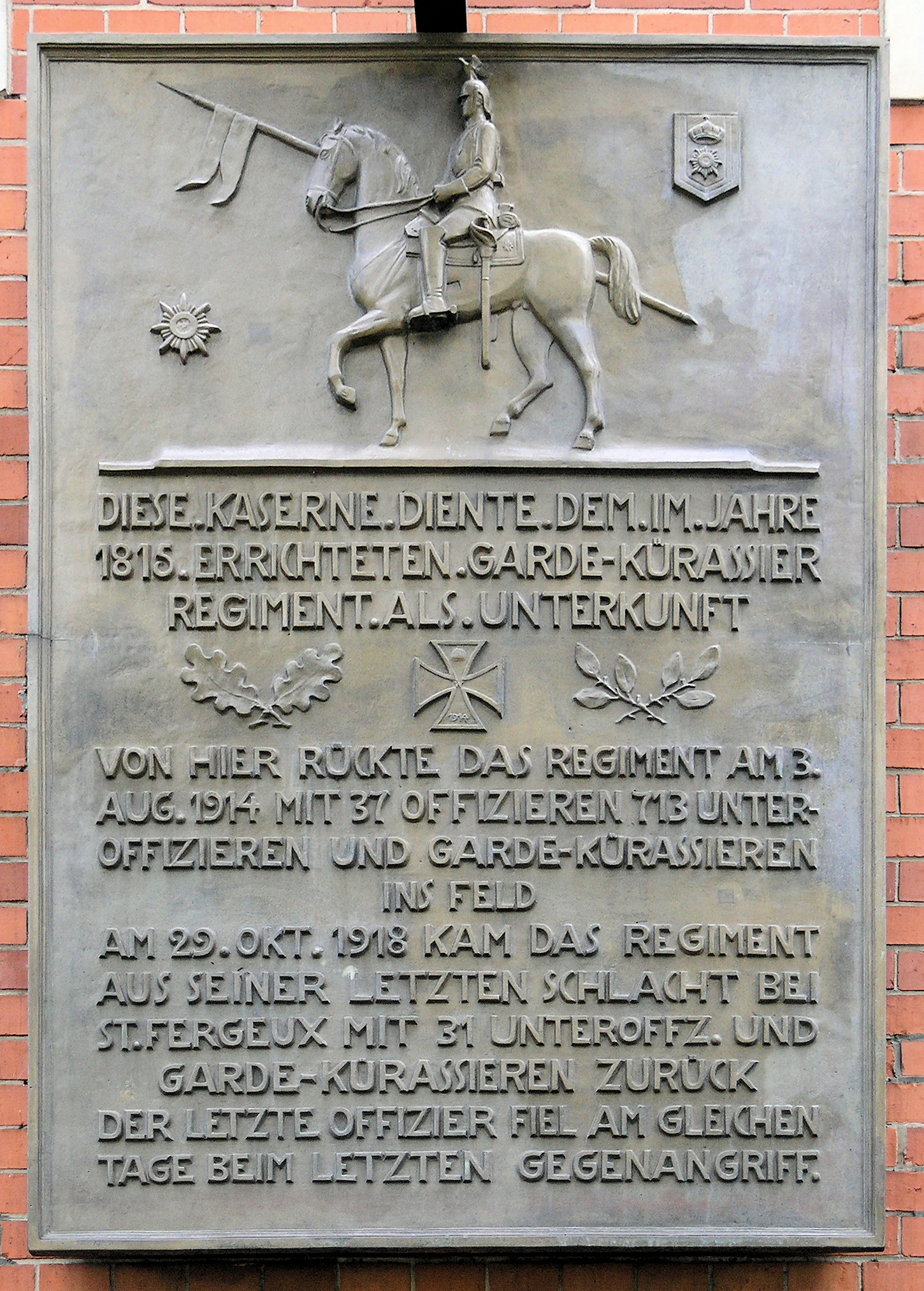 Memorial plaque, Garde-Kürassier-Kaserne, Columbiadamm ggü 56, Berlin-Kreuzberg, Germany